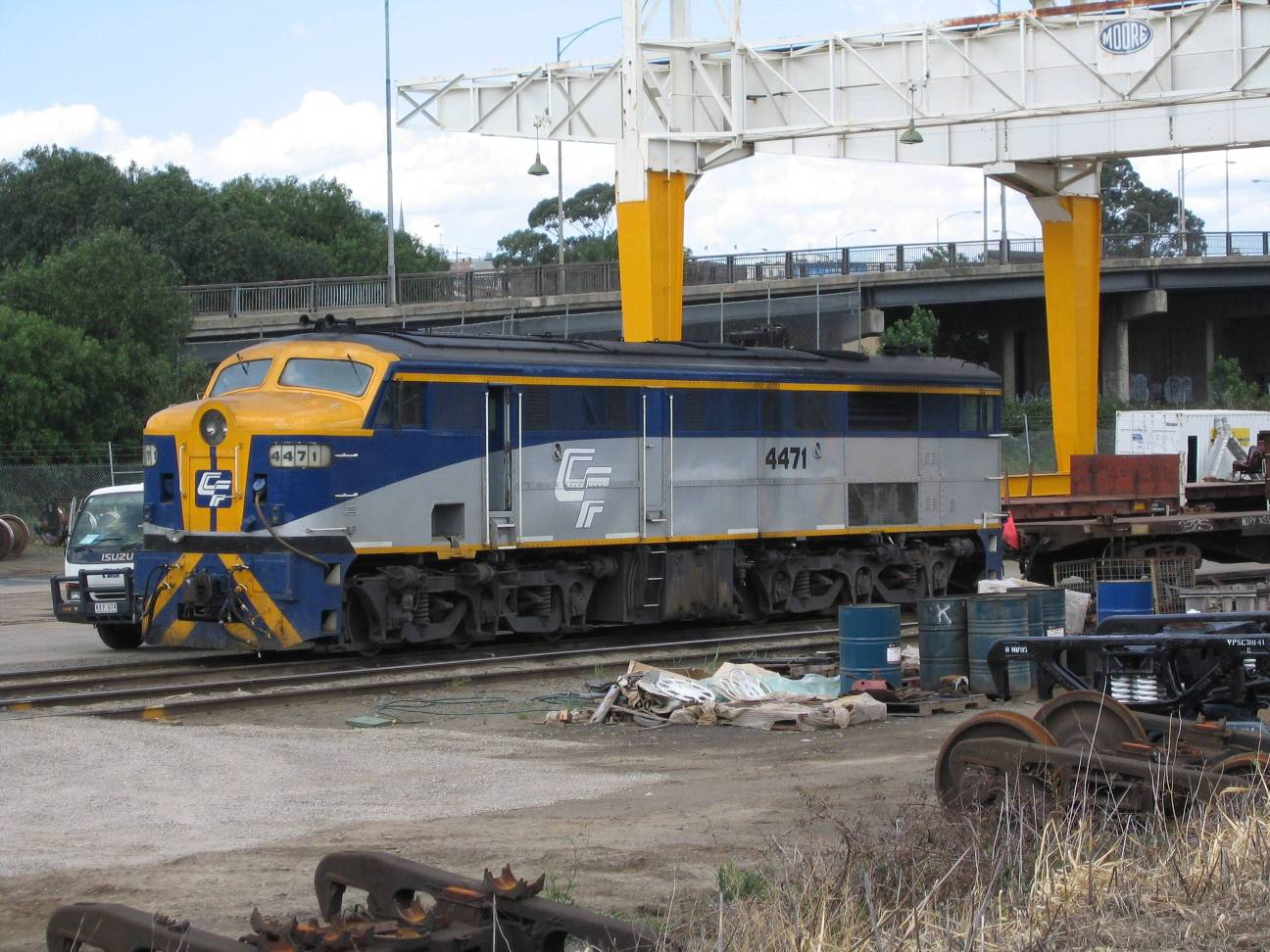 Chicago Freight Car Leasing Australia New South Wales 44 class locomotive 4471 at the Creek Sidings, Melbourne, Victoria, Australia